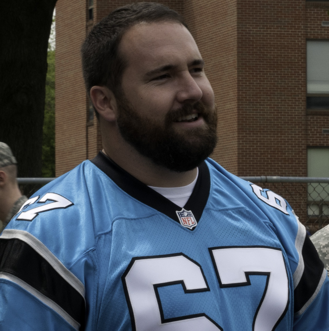 Carolina Panthers center, Ryan Kalil, visiting soldiers at the Joint Base Myer-Henderson Hall.